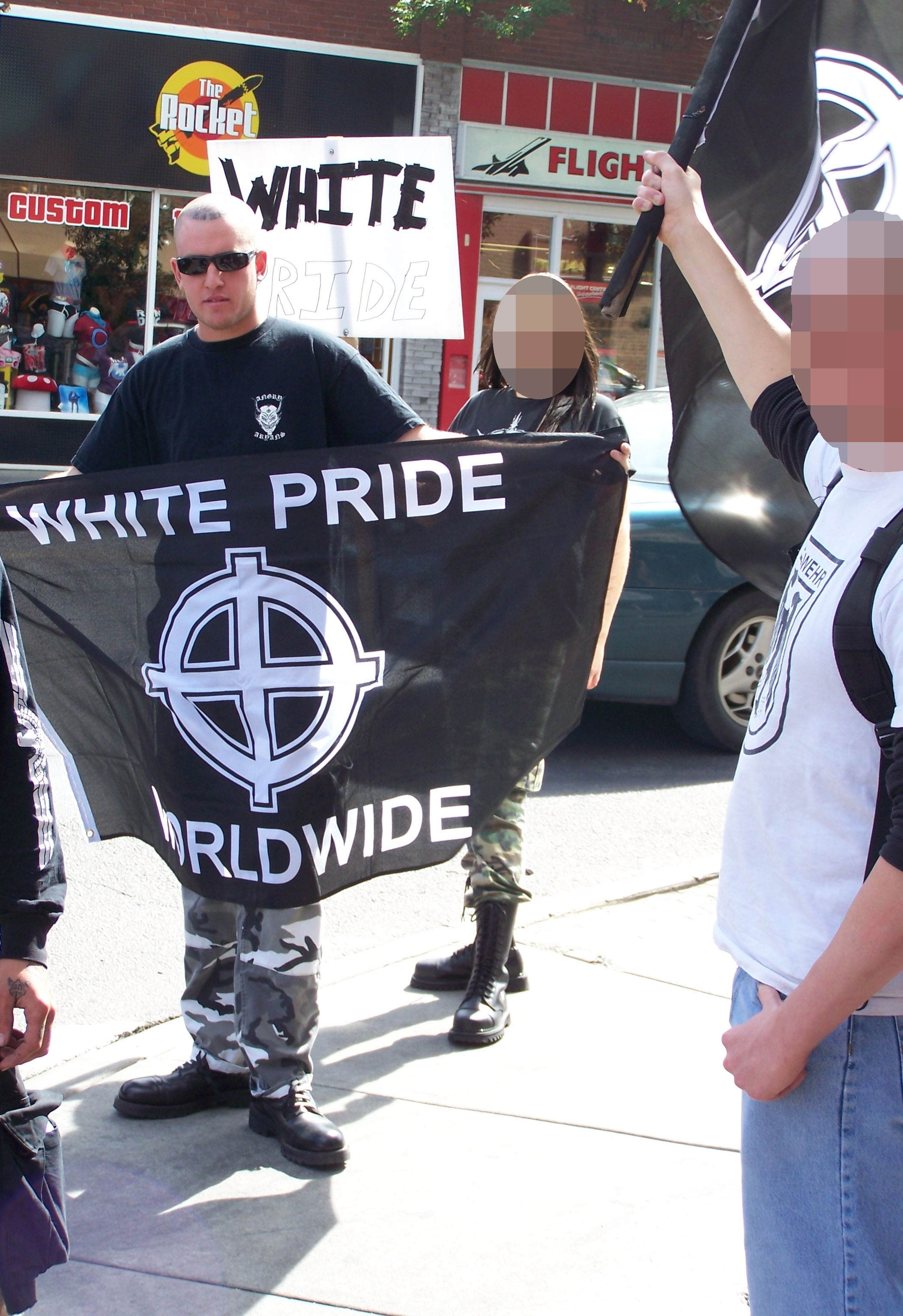 Members of the Alberta-based neo-nazi group Aryan Guard stage a counter-protest, at an anti-racism rally. They are seen here on the Southwest corner of Kensington Road and 10 Street Northwest in Calgary, Alberta, Canada. Please note that this image has been cropped to keep out unrelated people who happened to pass by.